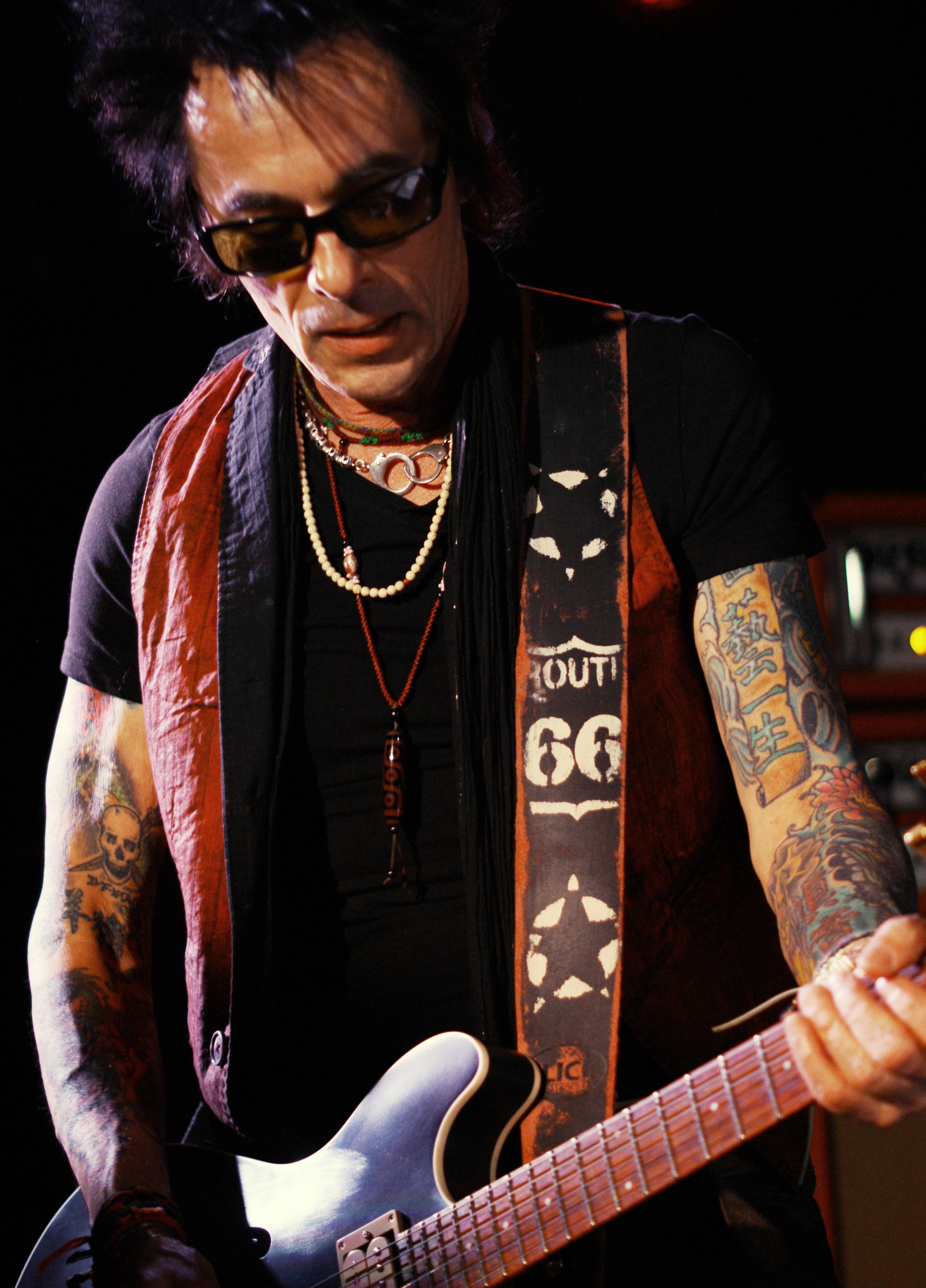 Earl Slick playing with The New York Dolls at Club Academy in Manchester, England on 29 March 2011.